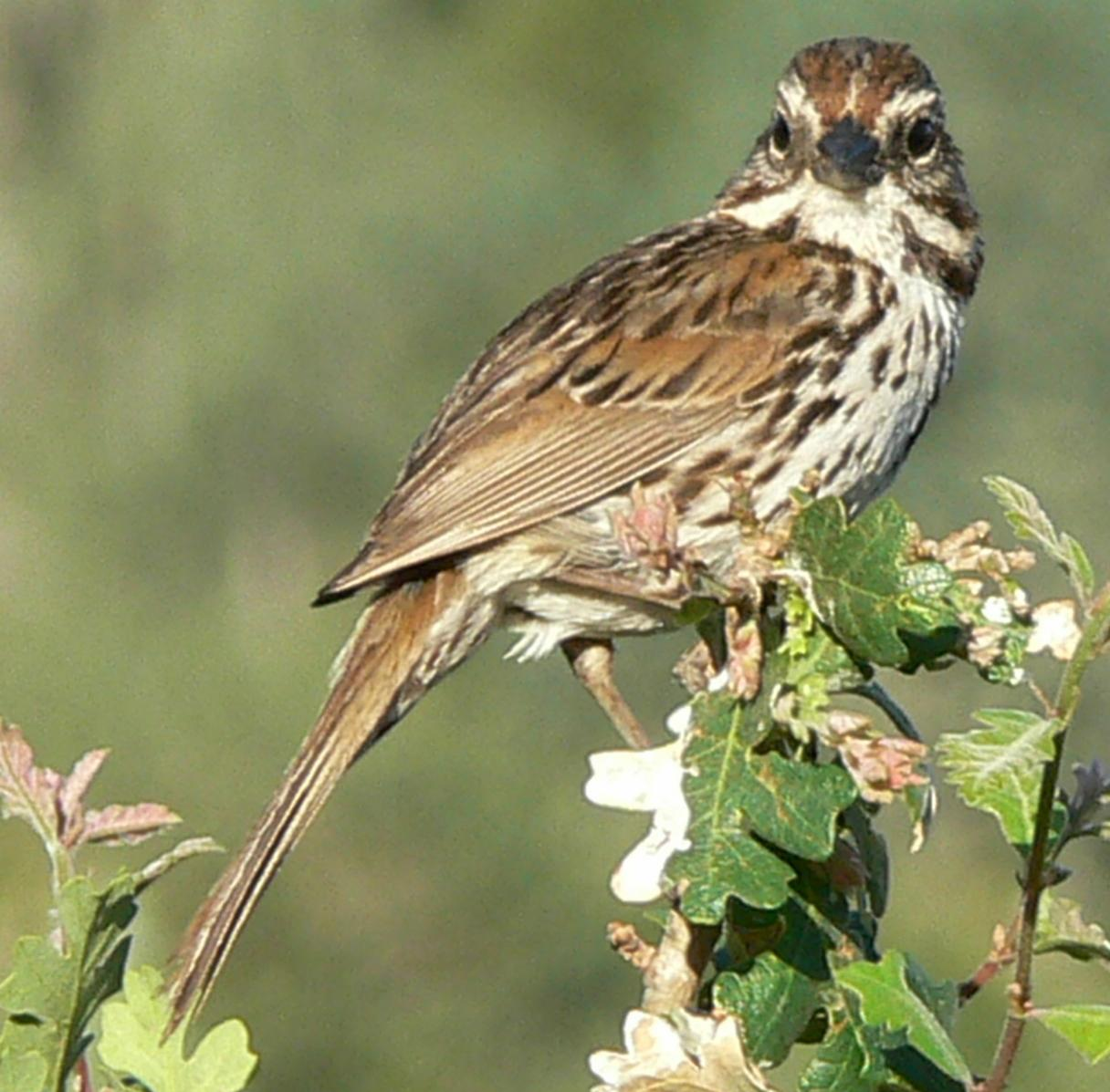 Melospiza melodia A rare quiet moment for this singer.